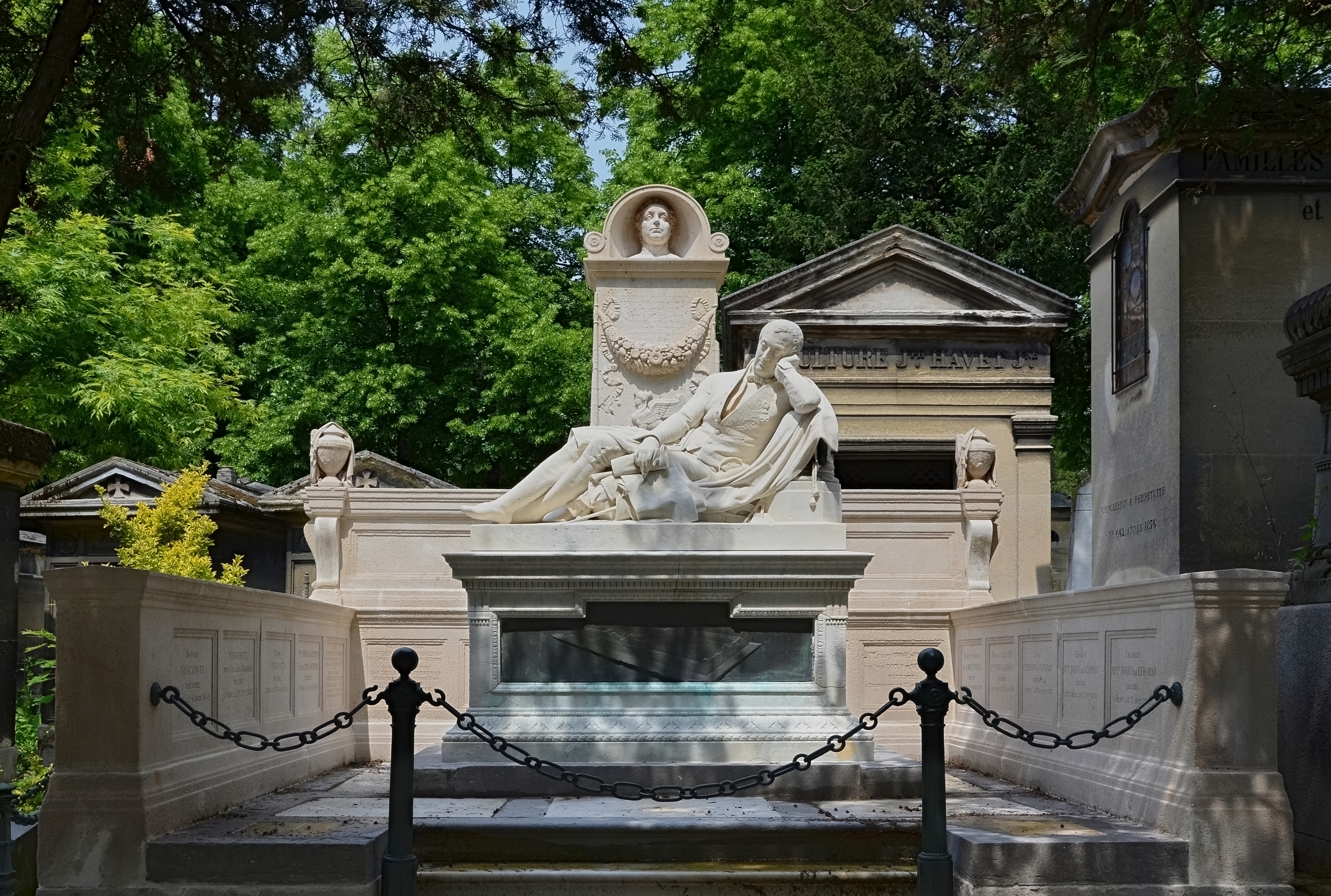 Grave of architect and designer Louis Visconti in Père-Lachaise cemetery, Paris, 20th arr., France. David d'Angers (1788–1856) Alternative names Pierre-Jean David d'Angers, Pierre-Jean David, David d'AngersDescriptionFrench sculptor, politician and medallistDate of birth/death 12 March 1788 5 January 1856Location of birth/death Angers, France Paris, FranceWork location Paris Authority control : Q364498 VIAF: 69026614 ISNI: 0000 0001 1447 271X ULAN: 500115506 LCCN: n85221737 WGA: DAVID d'Angers WorldCat creator QS:P170,Q364498 Victor-Edmond Leharivel-Durocher (1816–1878) DescriptionFrench sculptorDate of birth/death 20 November 1816 9 October 1878 Location of birth/death Chanu ChanuAuthority control : Q3557078 VIAF: 89805767 ISNI: 0000 0000 6250 458X SUDOC: 196539358 BNF: 106877296 creator QS:P170,Q3557078 Pierre-Charles Simart (1806–1857) Alternative names Pierre Charles Simart; Charles SimartDescriptionFrench sculptor and photographerDate of birth/death 27 June 1806 27 May 1857 Location of birth/death Troyes ParisAuthority control : Q3382935 VIAF: 67247904 ISNI: 0000 0000 6678 4144 ULAN: 500076651 LCCN: n86104776 GND: 117629790 WorldCat creator QS:P170,Q3382935 Louis Villeminot (1826–1914) DescriptionFrench sculptorDate of birth/death 14 September 1826 after 1914 date QS:P,+1914-00-00T00:00:00Z/7,P1319,+1914-00-00T00:00:00Z/9Location of birth Paris Authority control : Q18199029 Léonore: LH/2720/5 creator QS:P170,Q18199029